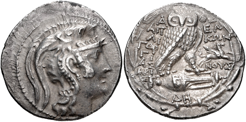 Attica, Athens. Circa 165-42 BC. AR Tetradrachm (32mm, 16.59 g, 12h). New Style coinage. Apellikon, Gorgias, and Aristonos, magistrates. Struck 89/8 BC. Helmeted head of Athena right Owl standing right on amphora; griffin to right, Γ cut over a B on amphora, ΔH below; all within wreath.